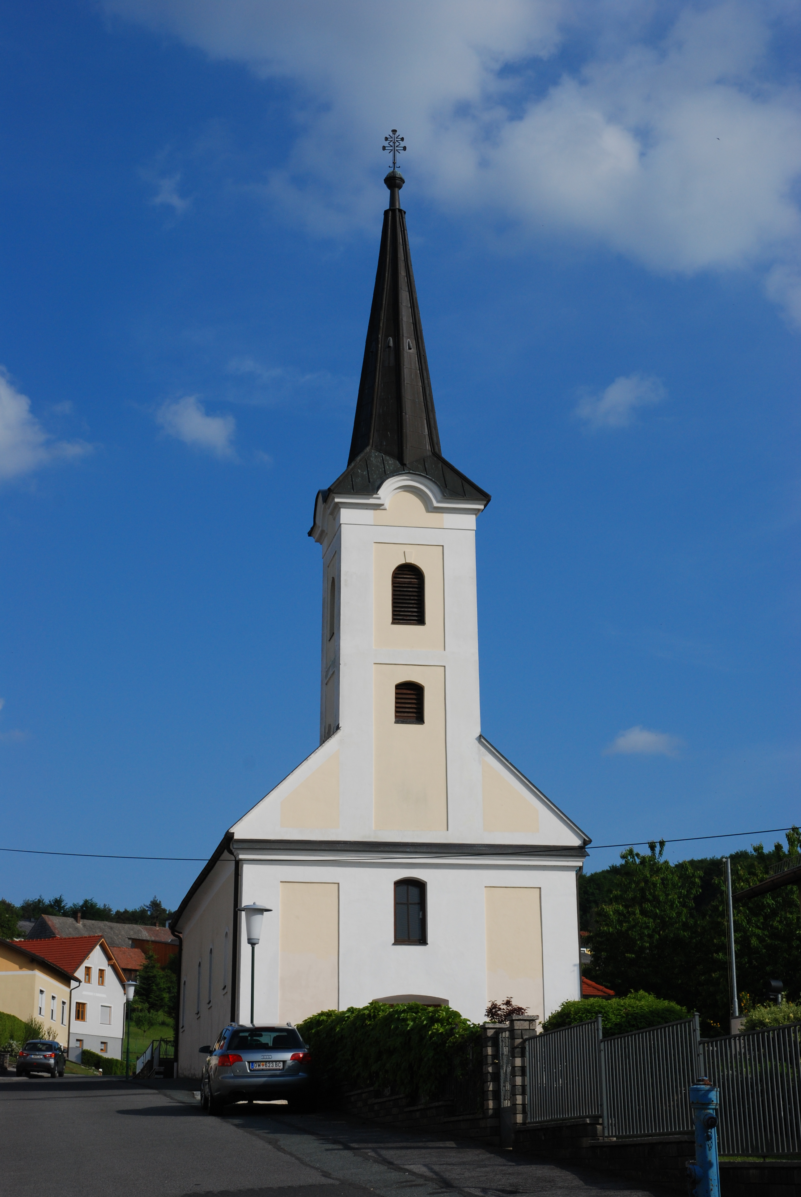 Kirche Oberkohlstätten